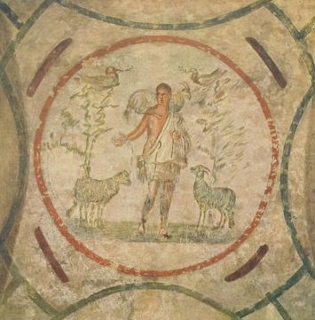 Good Shepherd in catacomb of Priscilla (Second half of the 3rd century)